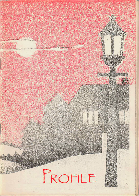 School Magazine Cover 1987, designed by Wai-Tsau Wong